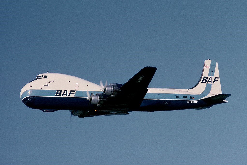 British Air Ferries Carvair G-ASHZ